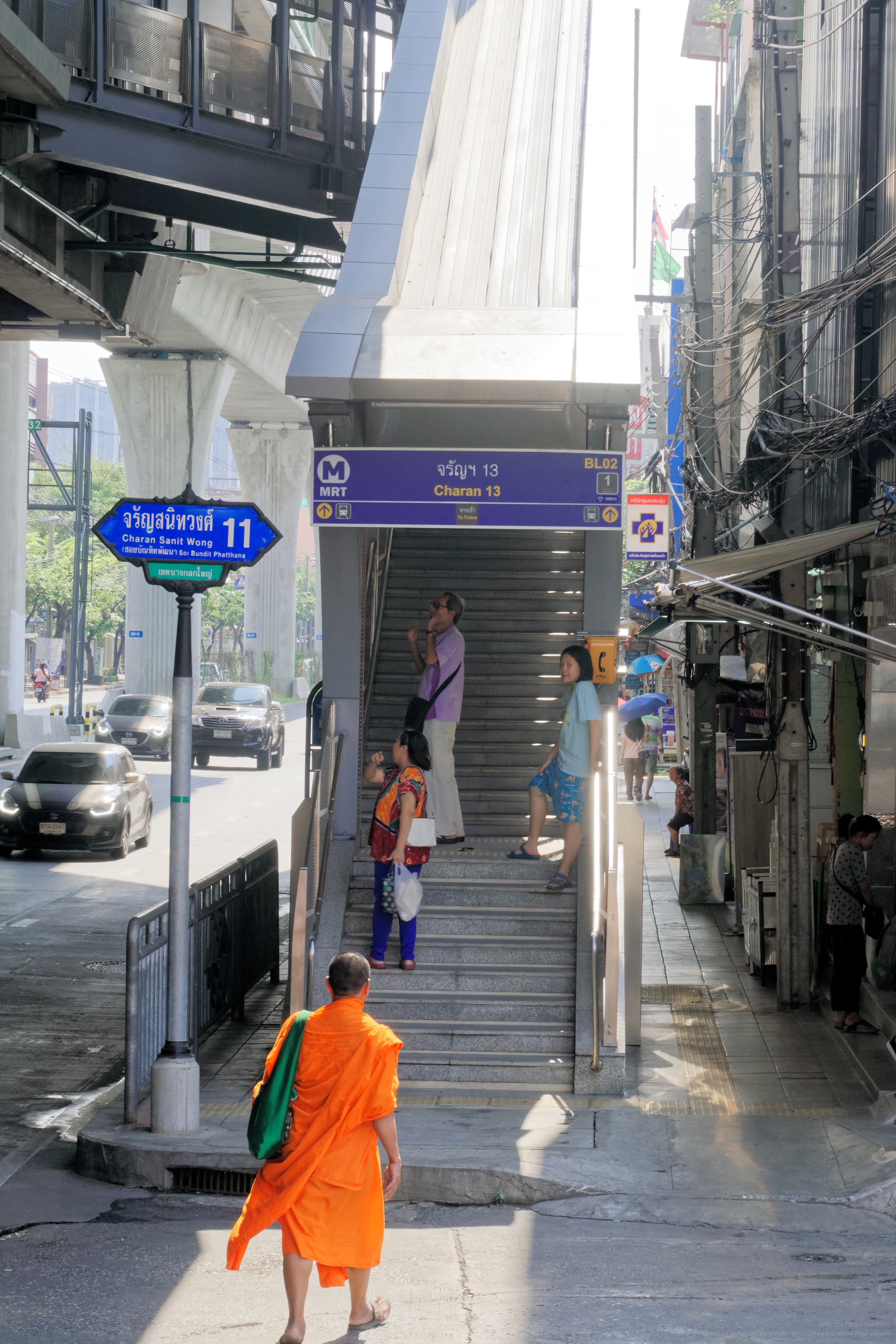 MRT Charan 13 – Exit 1 near Soi Charansanitwong 11